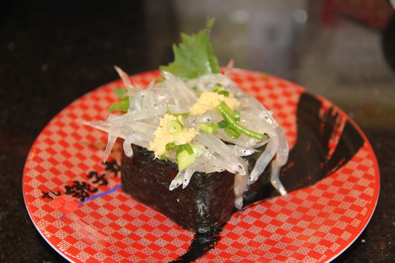 Shirauo gunkanmaki, sushi (Japanese icefish, Salangichthys microdon)